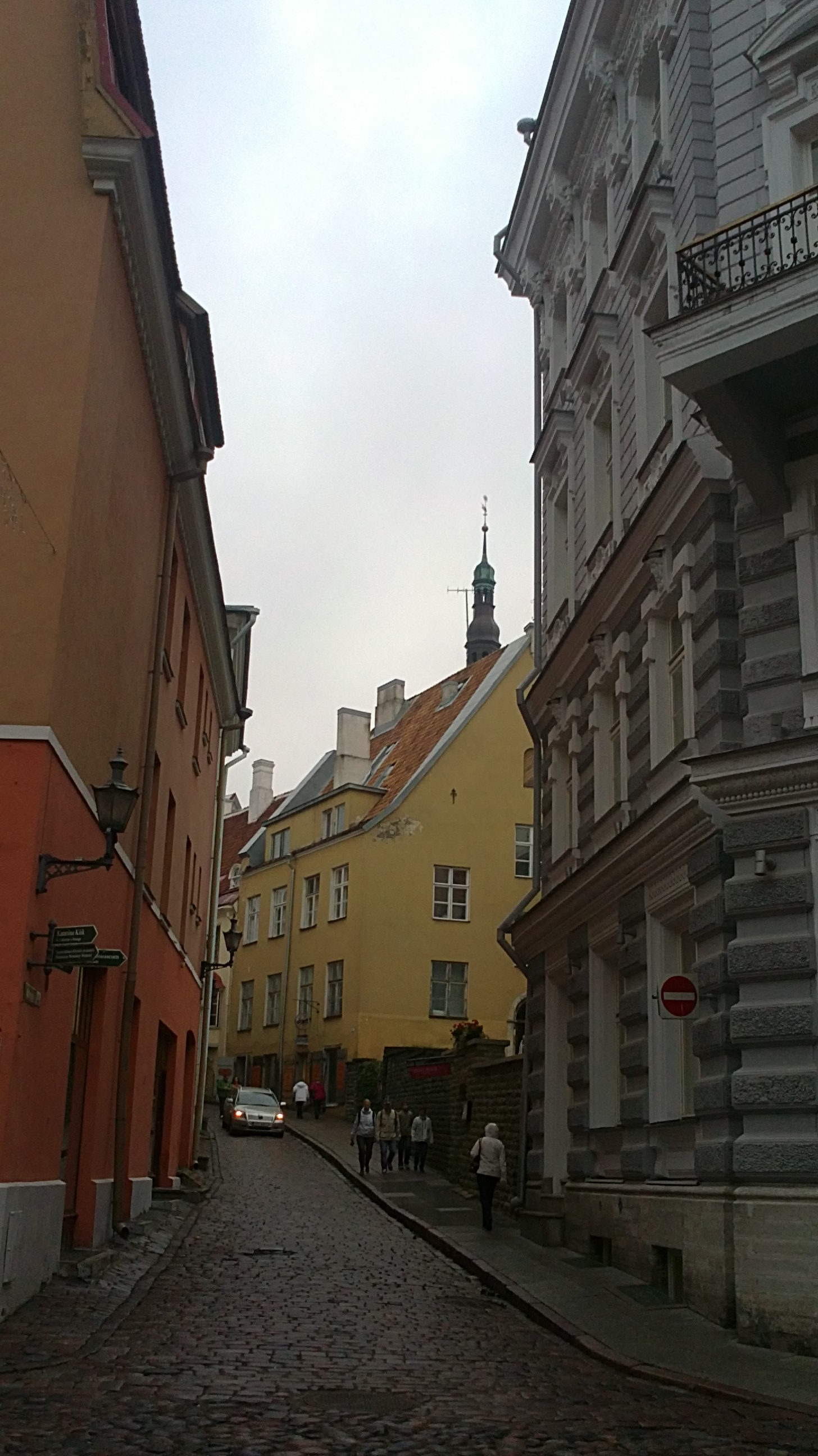 Apteegi street (view from Vene st)